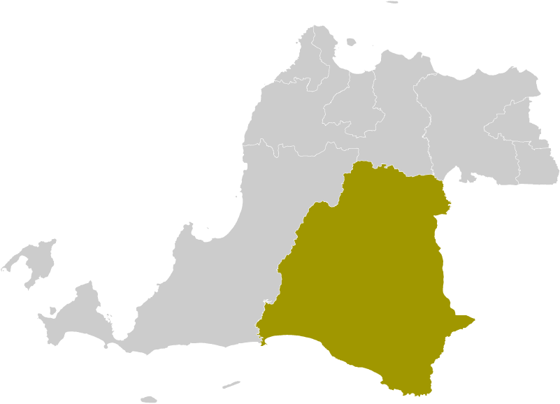 Lebak county in Banten province, Indonesia